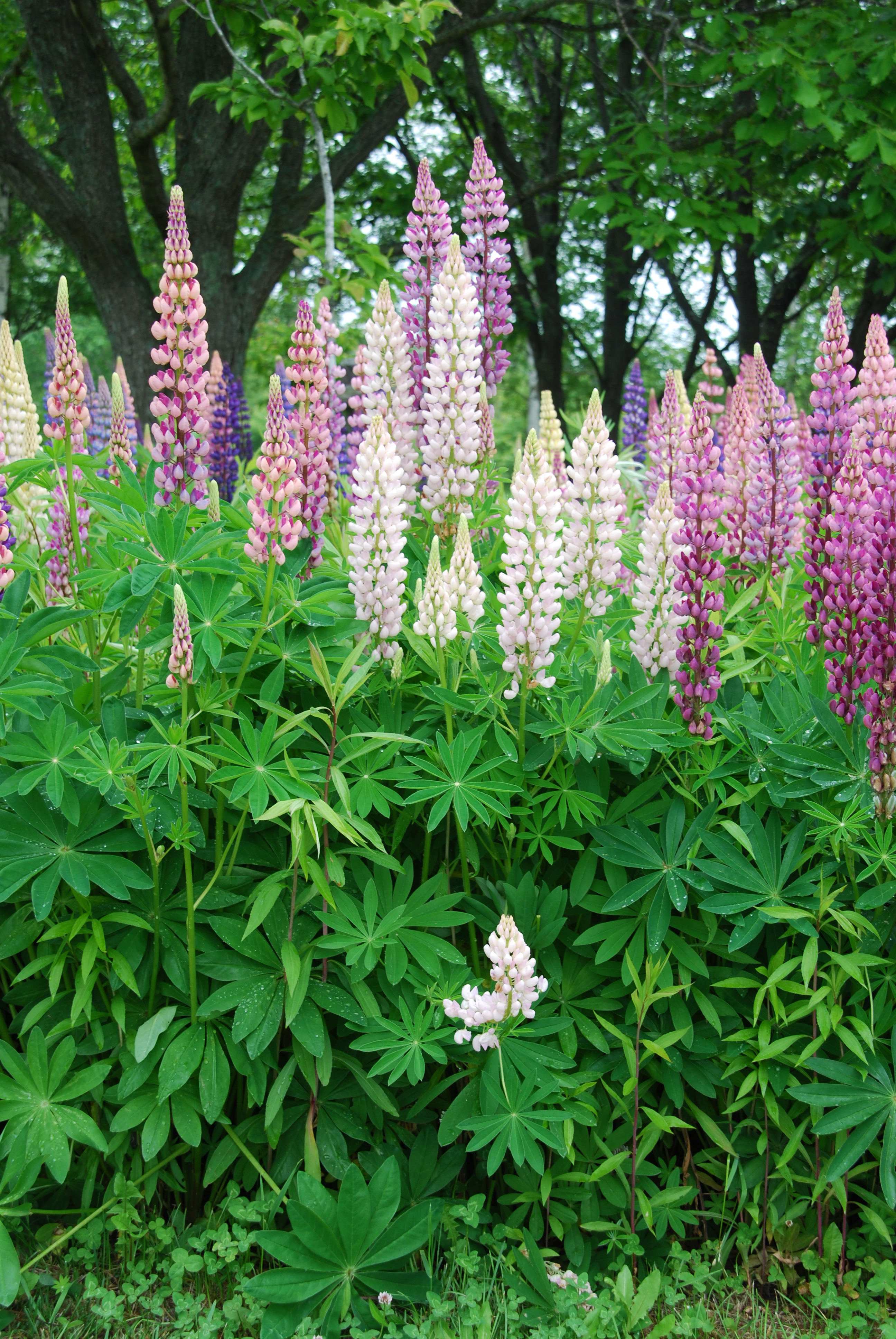 I took this photo on top of Mt.Tento, Abashiri, Hokkaidō, Japan.